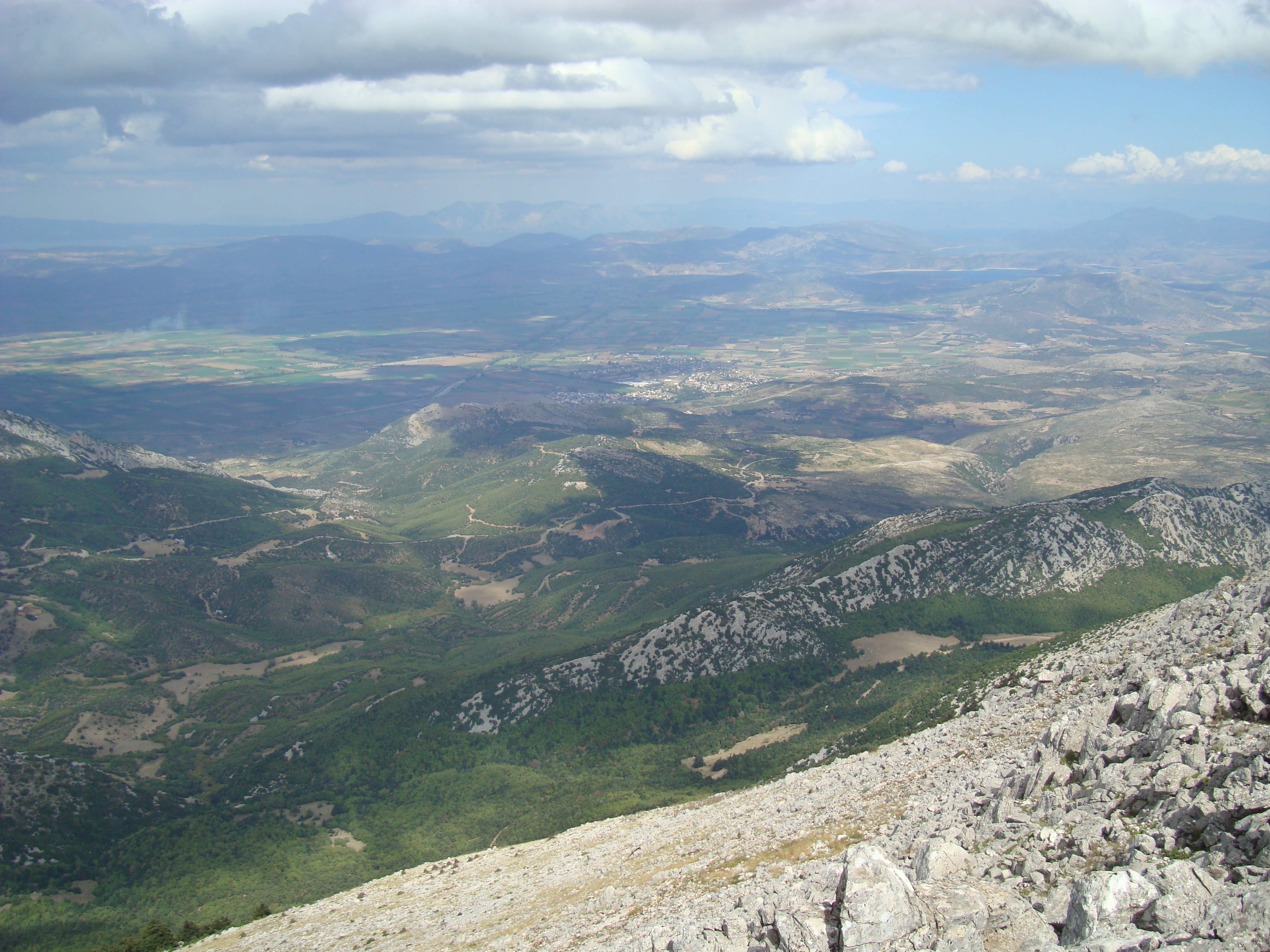 The Valley of the Muses seen from Motsara peak, on Mt. Zagarás (The Ancient Helikón)